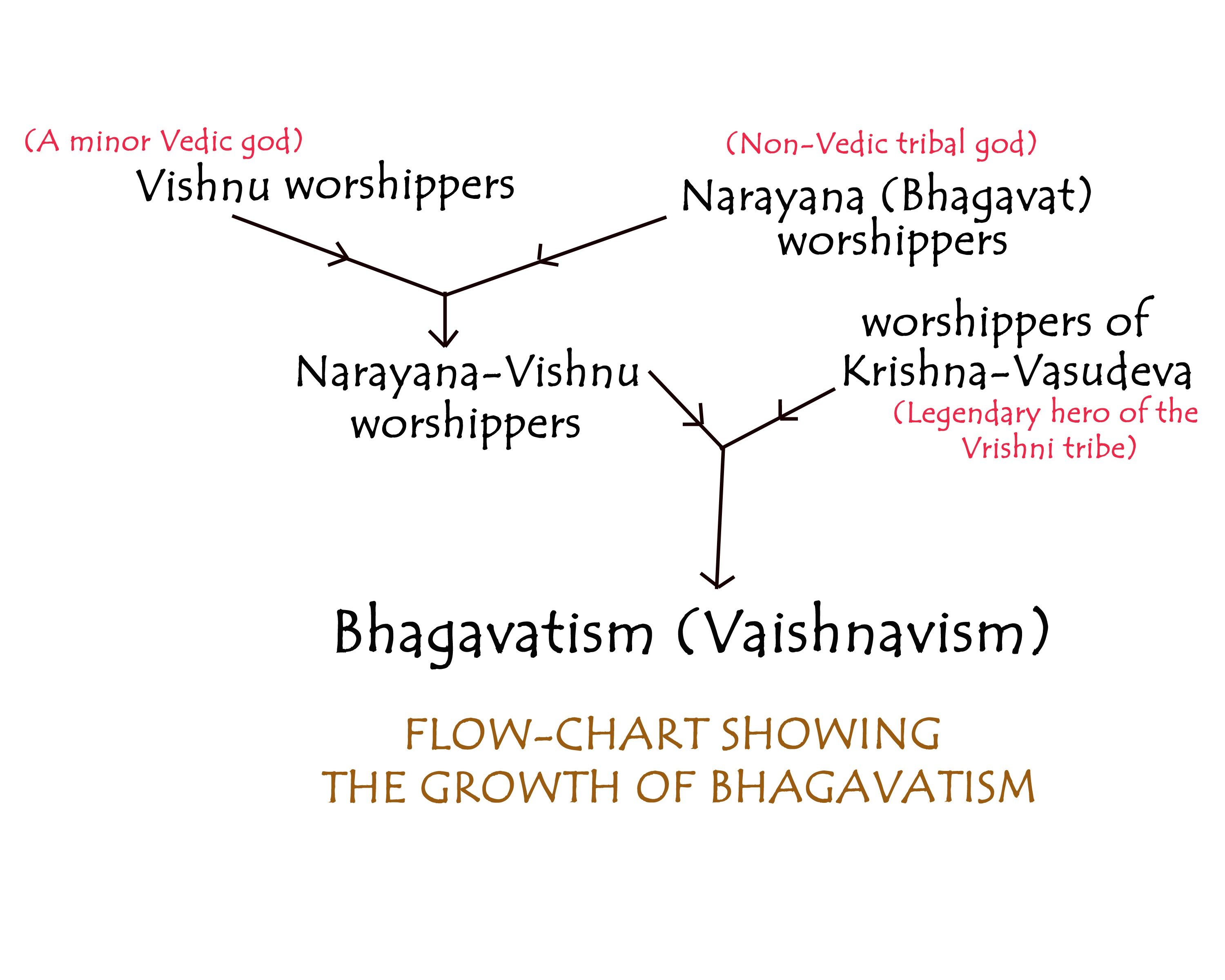 Flow chart showing the growth of Bhagavatism, created using the informations from NCERT, India text book for Higher Secondary Course